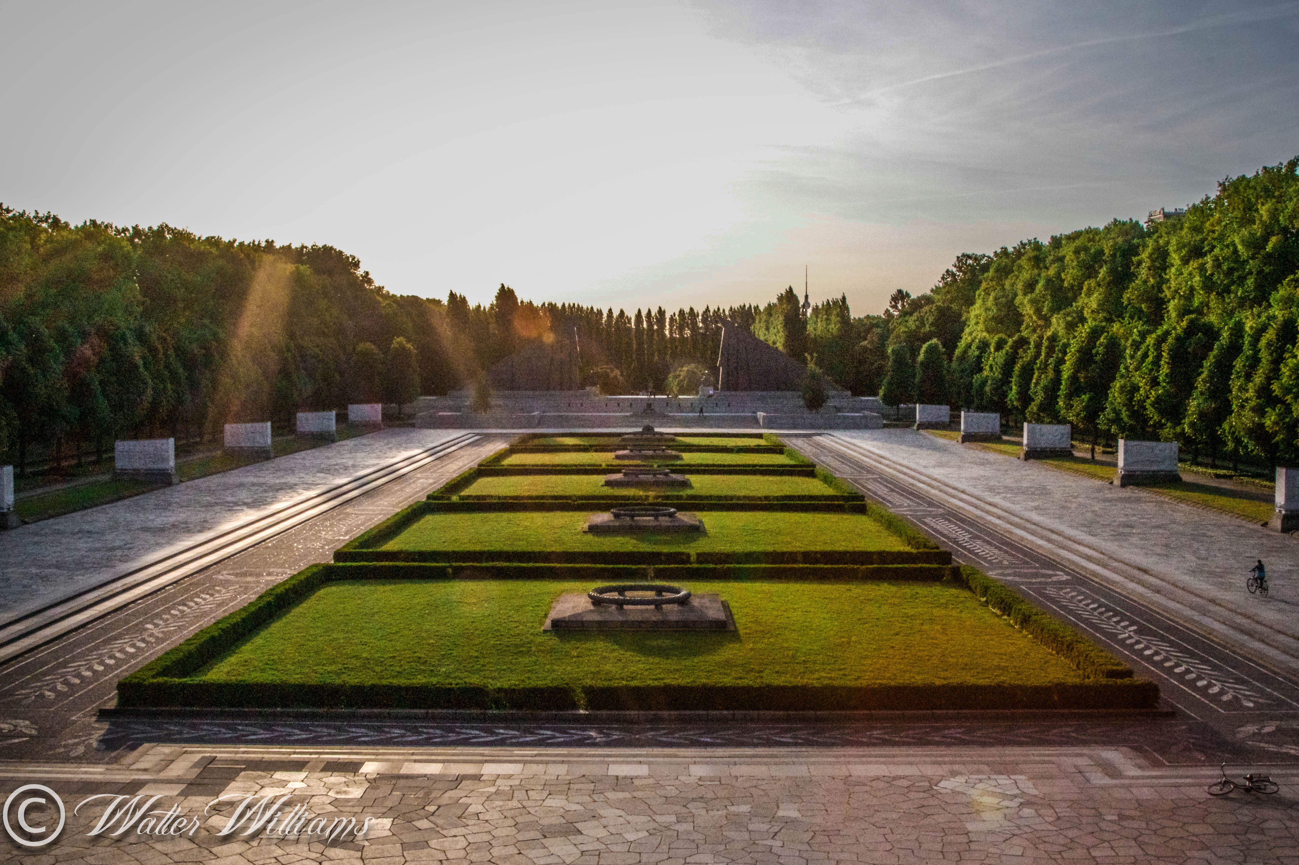 Looking to the entrance of Treptower park in Berlin, Germany.